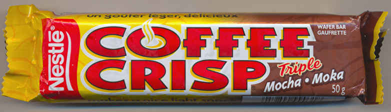 Coffee Crisp (Mocha) wrapper. This candy bar is only available in Canada.